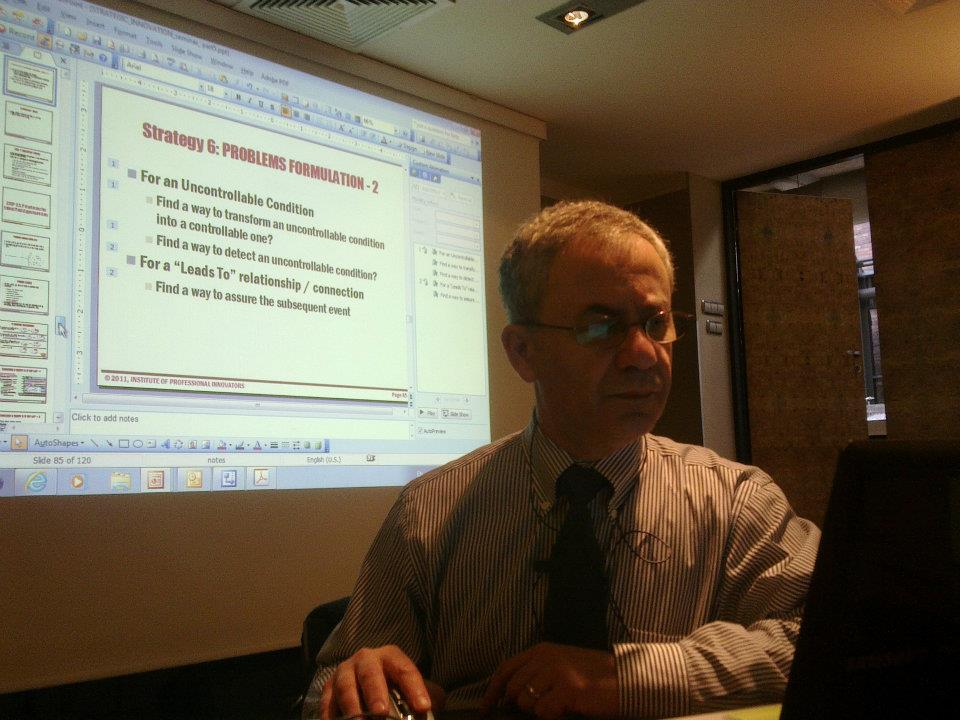 Strategic Innovation seminar